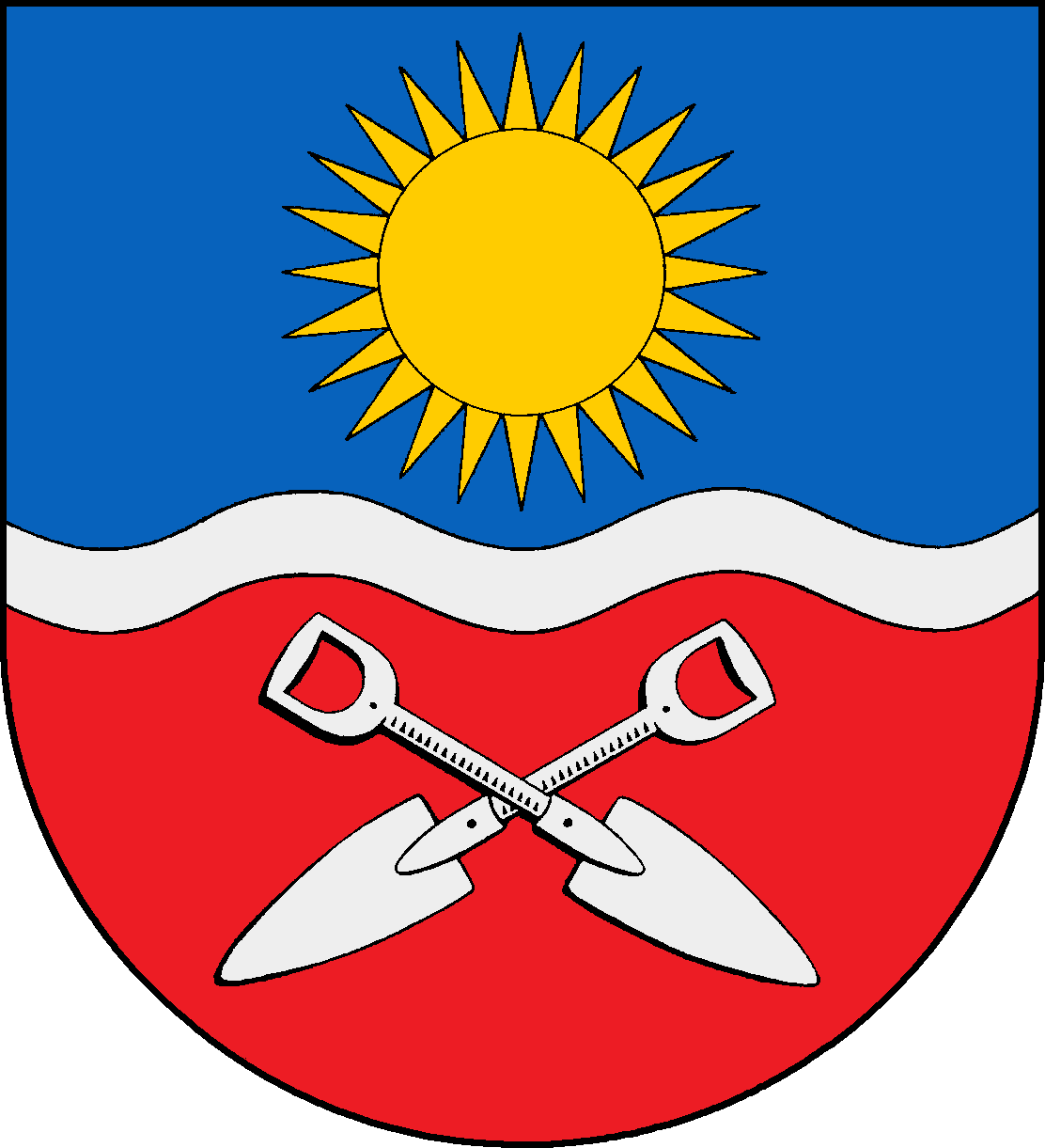 Coat of arms of the municipality Schönbek in Schleswig-Holstein, Germany.